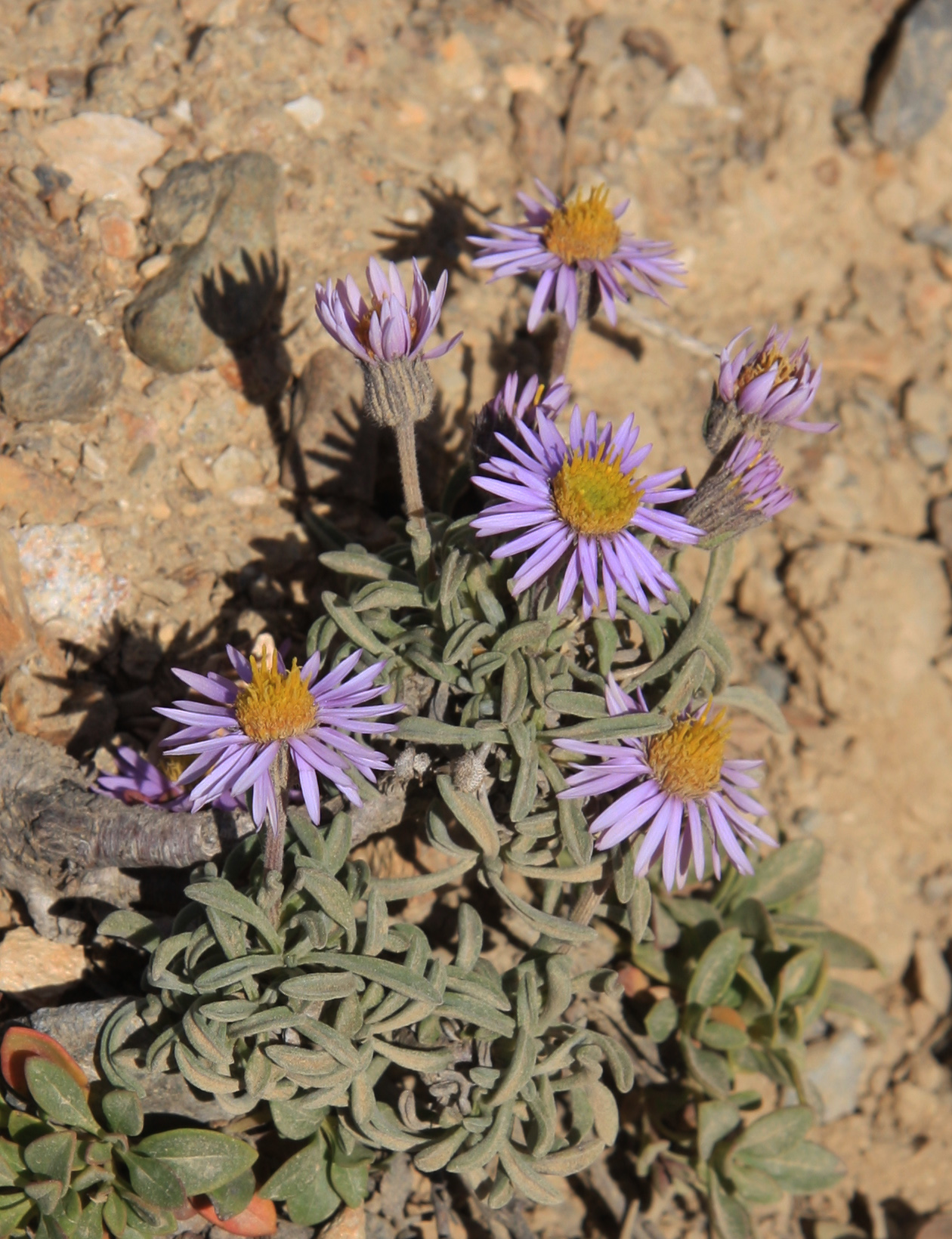 Alpine daisy (Erigeron pygmaeus) at 1100ft on the pass above Virginia Lakes. Basal leaves, fully open flowers, and partly-open flowers that show the single row of long, parallel phyllaries that differentiate Erigeron from Aster. Hoover Wilderness, California.